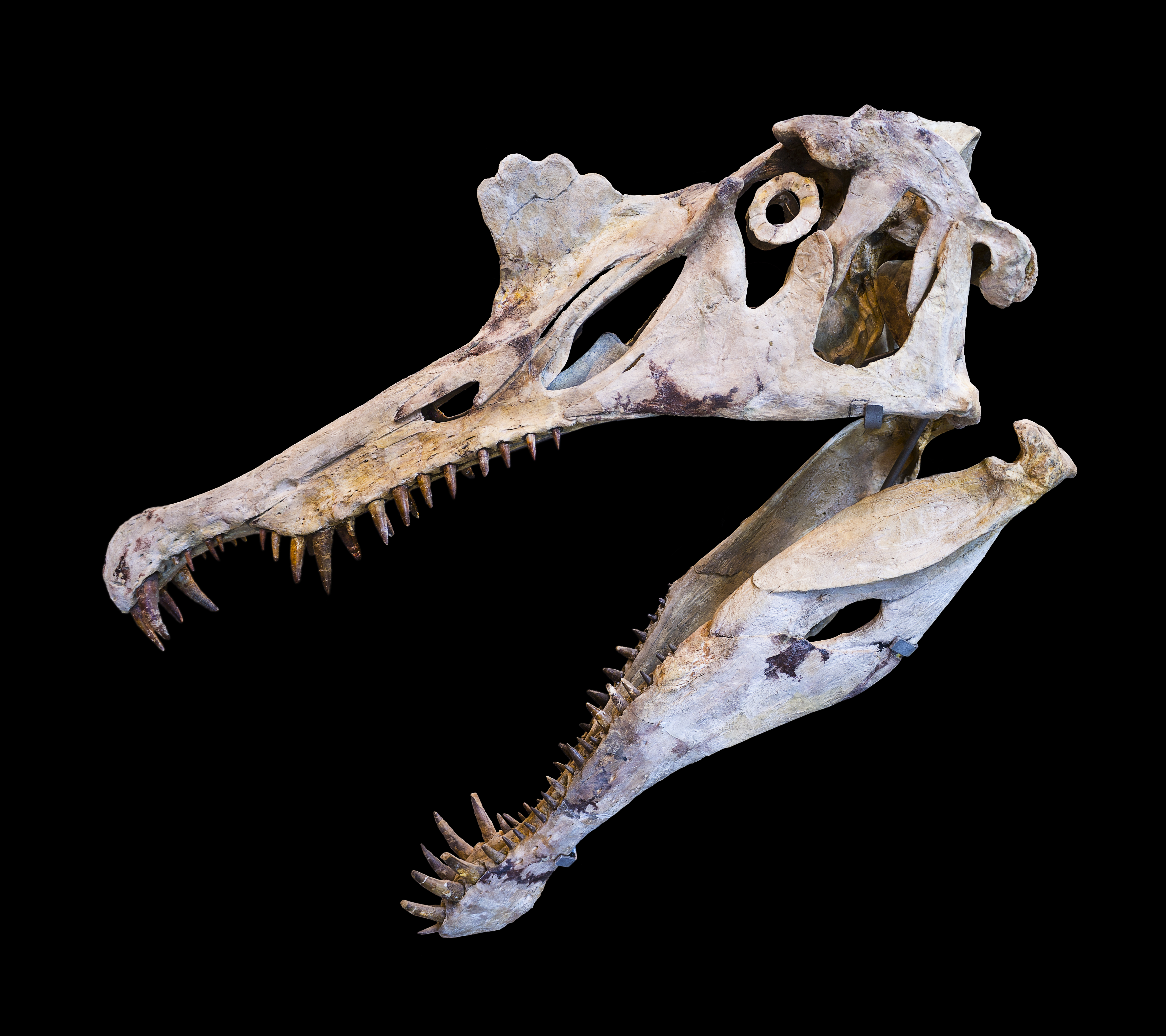 Skull of Spinosaurus aegyptiacus ; Morroco ; Private collection Stage : Albian-Cenomanian (112-93 Ma) Size : 1,20 m